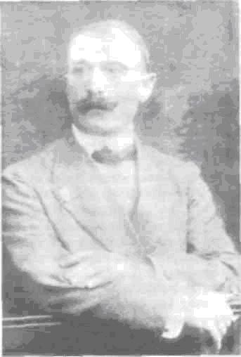 Aleksandar Buynov